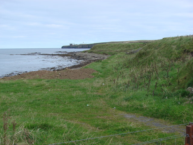 Path along the coast between Ackergill and Girnigoe Castle Creative Commons Attribution Share-alike license 2.0 Licensing This image was taken from the Geograph project collection. See this photograph's page on the Geograph website for the photographer's contact details. The copyright on this image is owned by Bill Henderson and is licensed for reuse under the Creative Commons Attribution-ShareAlike 2.0 license. Attribution: Bill Henderson